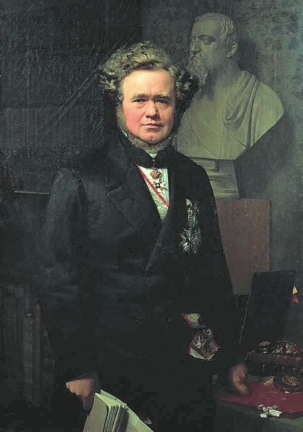 Portrait of Carl Christian Hall (1812-1888)